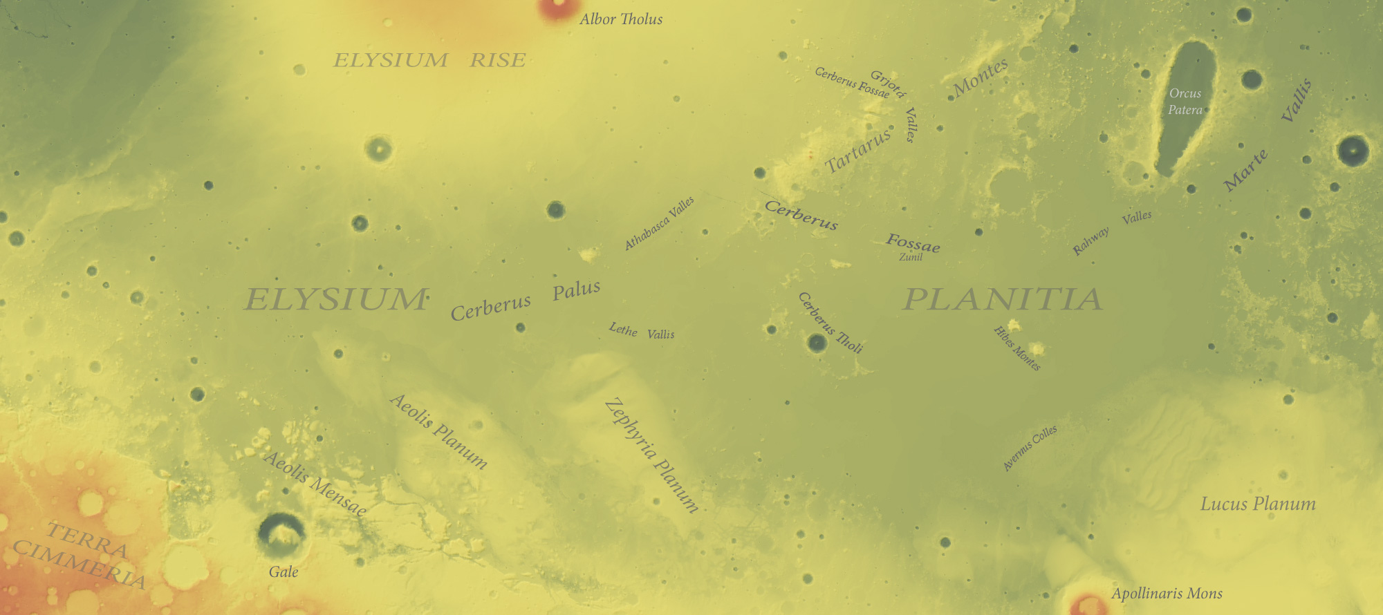 Topography map of Elysium Planitia, Mars, with related place names labeled. "Elysium rise" is not official place name. Light lit from NW. Map is equirectangular projection.